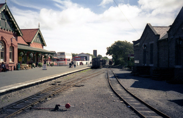 Port Erin station The terminus of the line from Douglas